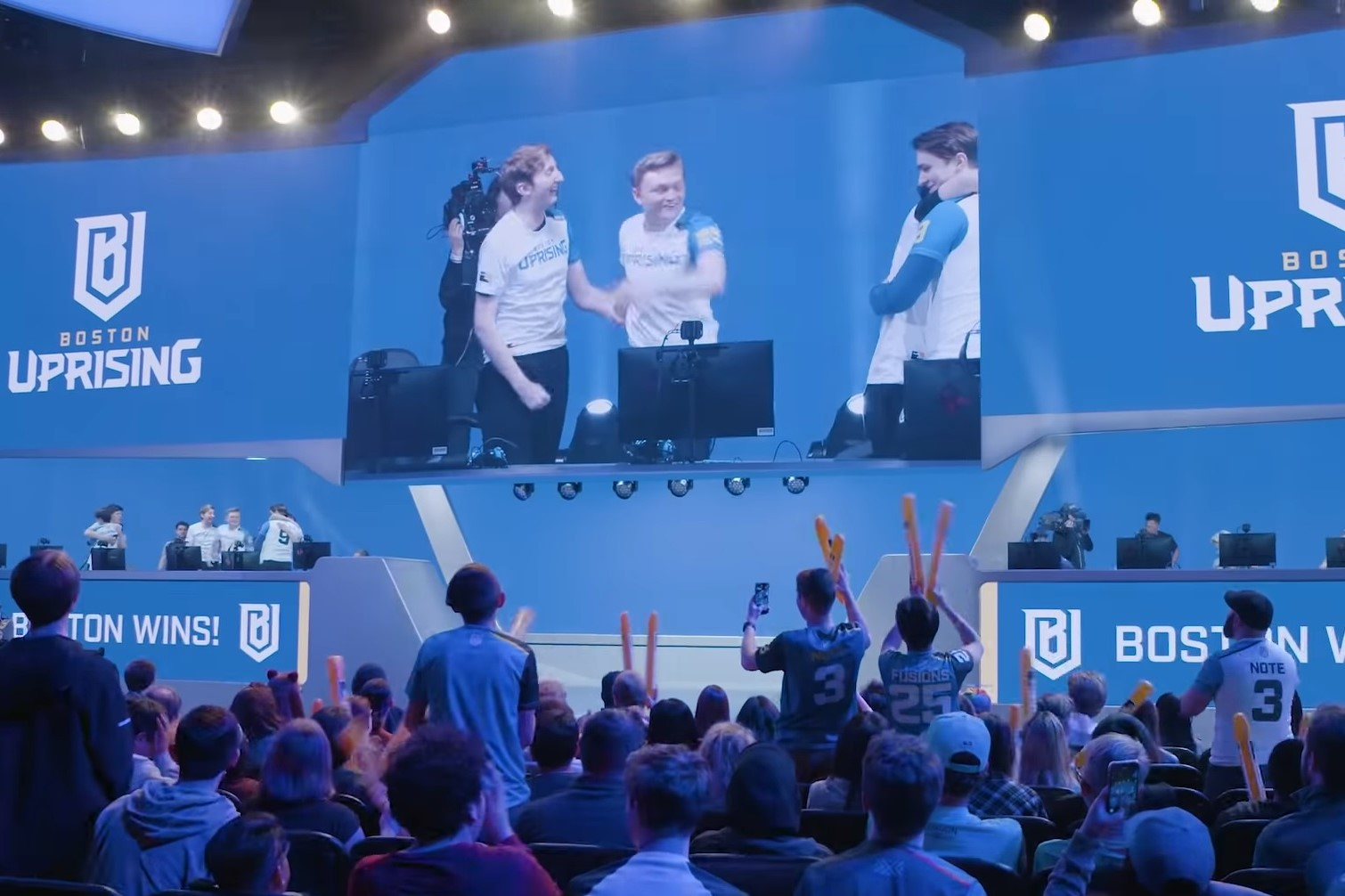 Boston Uprising defeated Dallas Fuel on March 16 to qualify for 2019 Stage 1 playoffs.